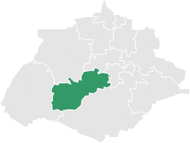 Map of the Municipalty of Jesús María in the State of Aguascalientes, México.